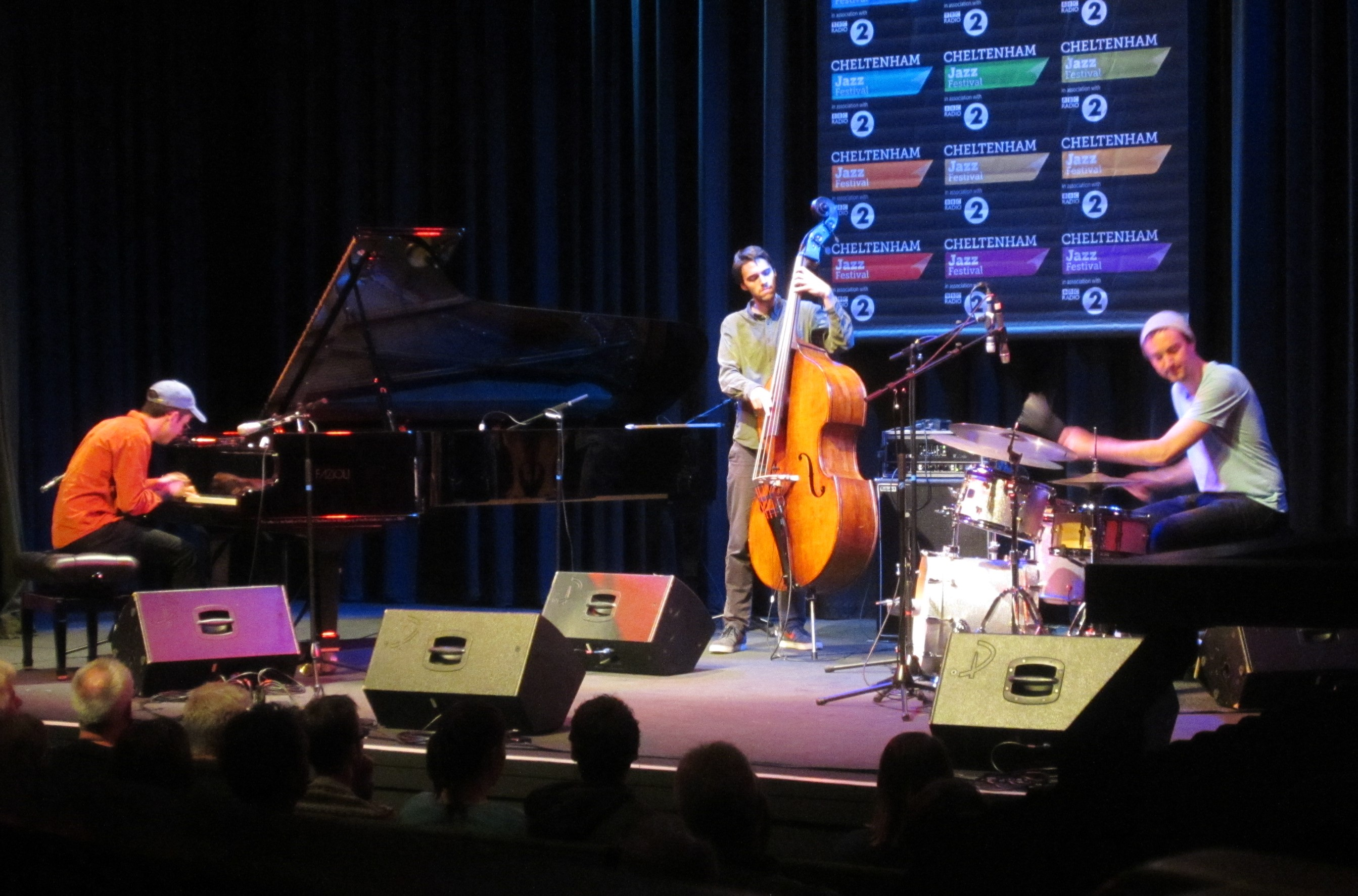 Elliot Galvin Trio playing at the Parabola Arts Centre in 2017 as part of the Cheltenham Jazz Festival